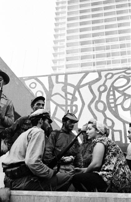 CUBA. La Havana. 1959. New Years day in front of Havana Hilton, now Havan Libre.